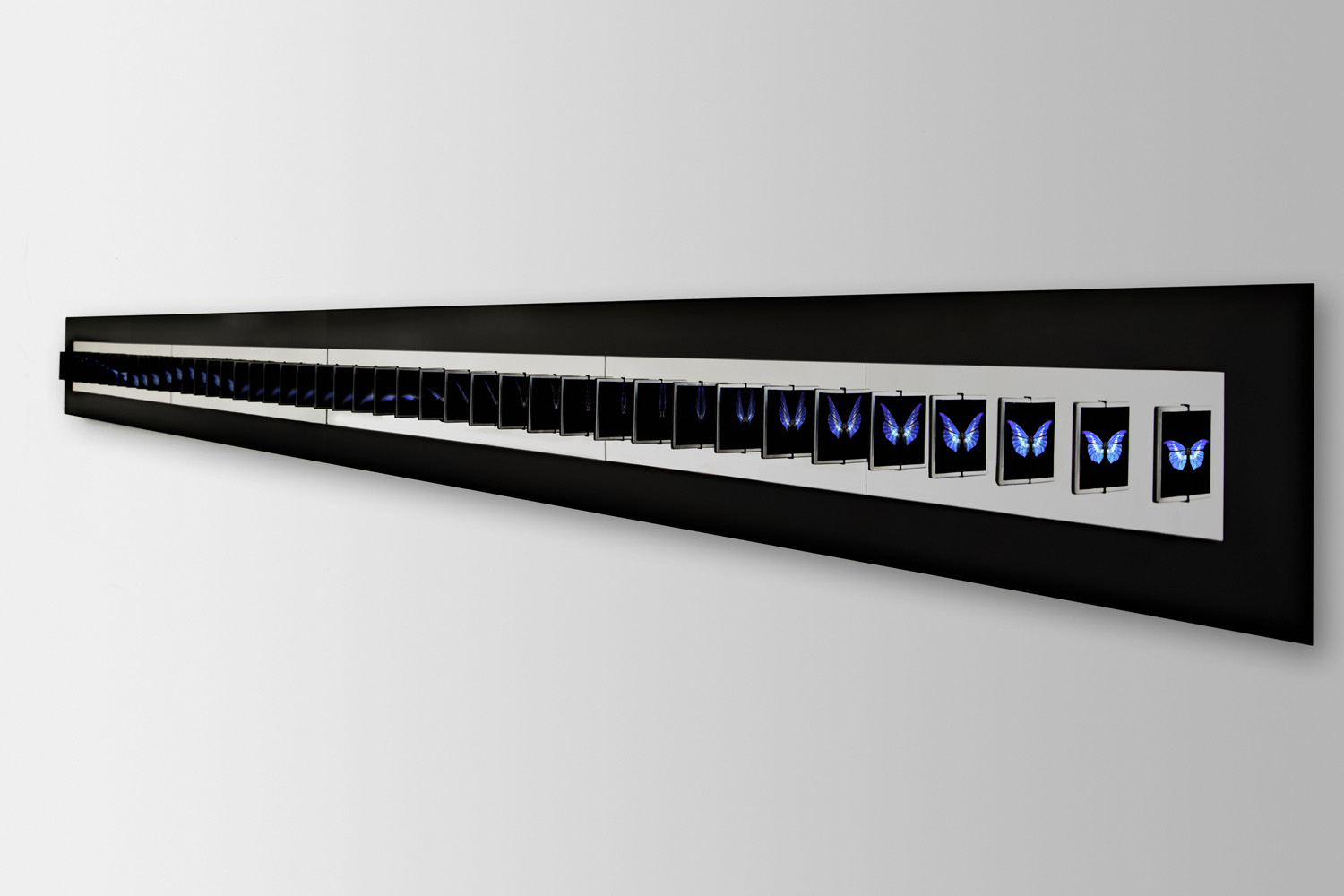 Photograph of the Flutter (2011) artwork by artist Dominic Harris.